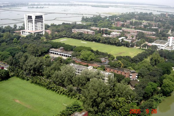 MIST CAMPUS